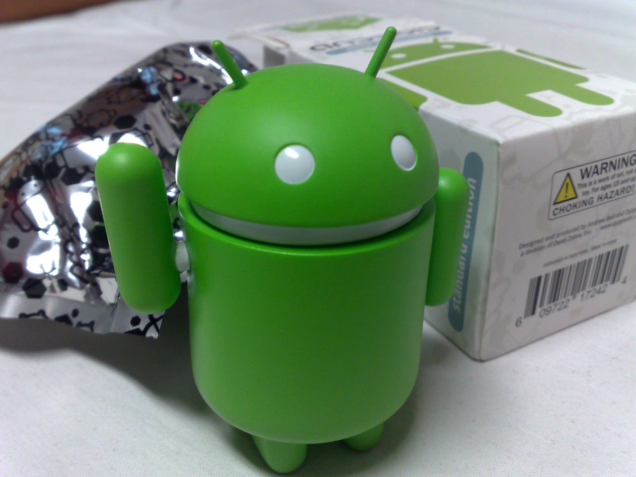 Android green figure, next to its original packaging